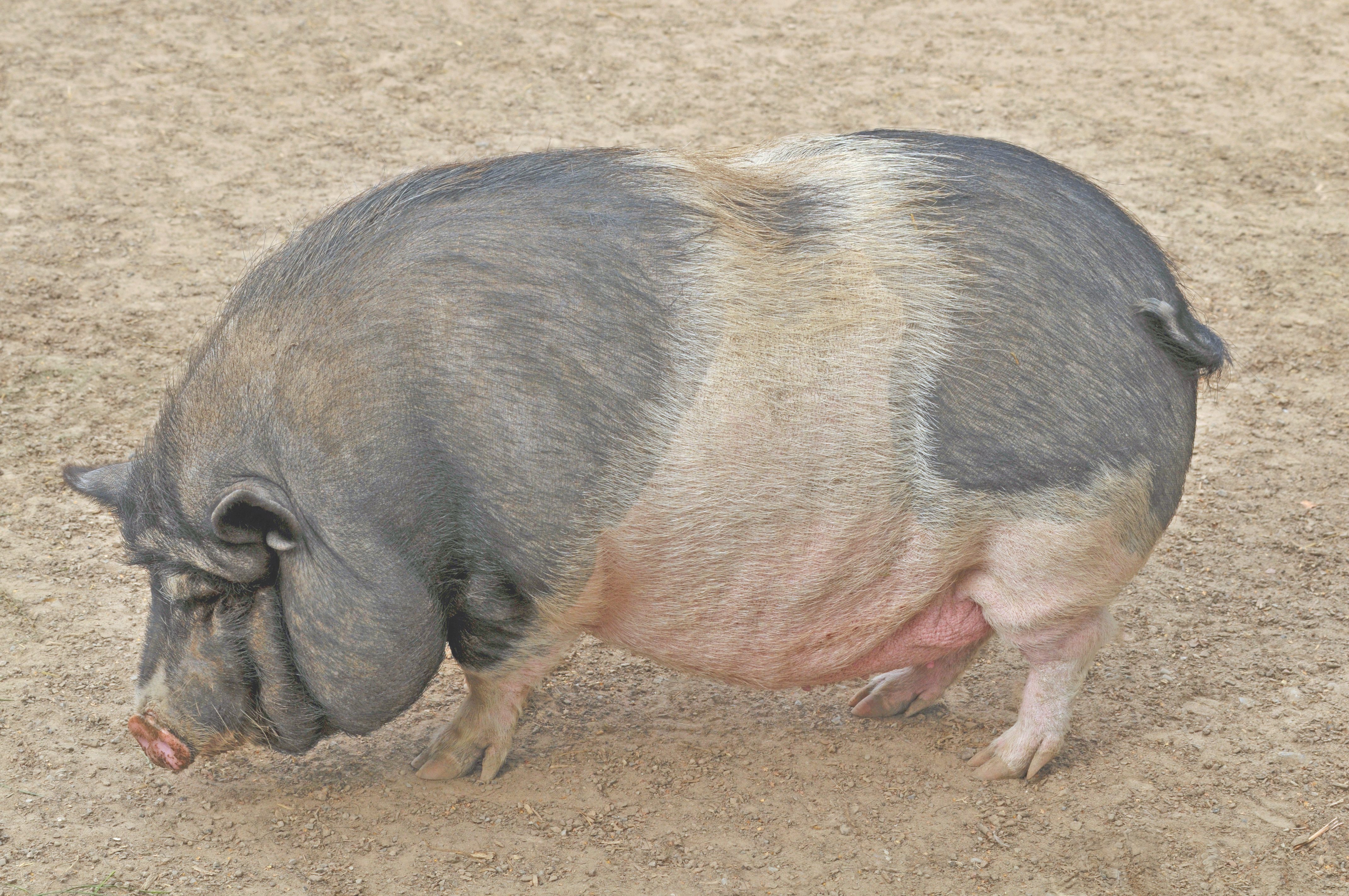 Pot-bellied pig in the Tierpark Bad Pyrmont in Bad Pyrmont, Lower Saxony, Germany